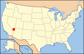 Map of Hoover Dam